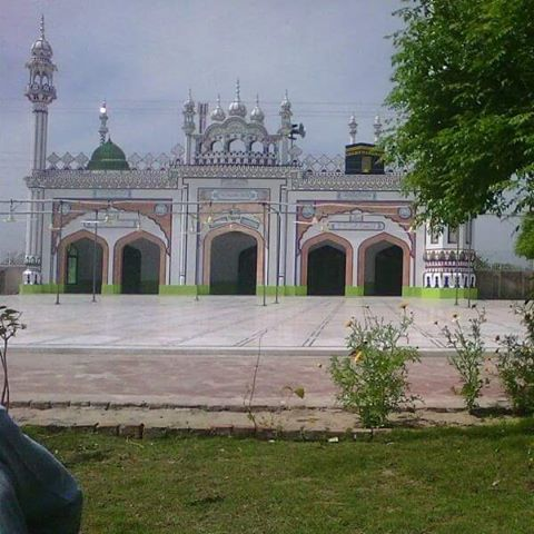 Congregational mosque of Chak No 100 ML